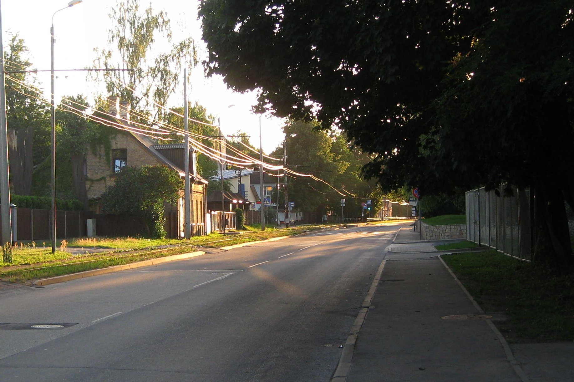 Bauskas street in Riga, Latvia